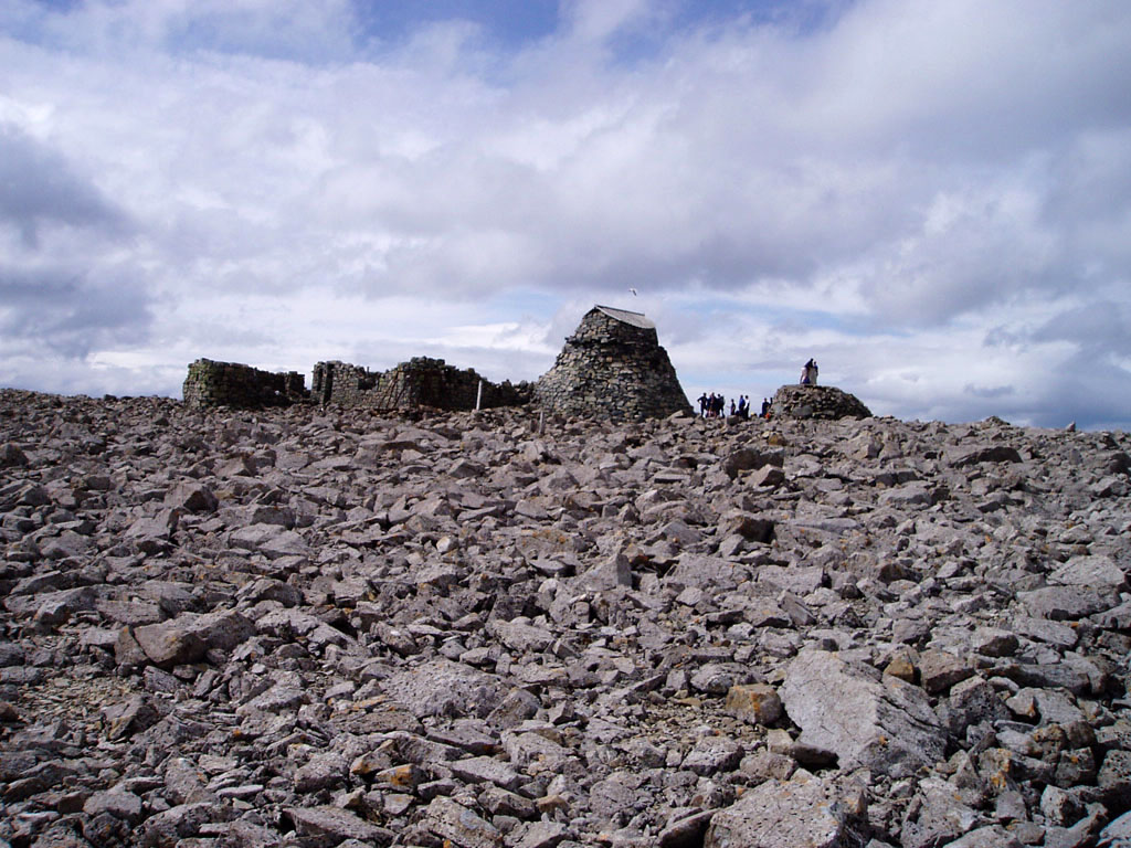 Summit plateau of Ben Nevis, Scotland, showing the ruins of the observatory, the emergency shelter, and the summit cairn and trig point. Taken by Blisco on 1 July 2006.